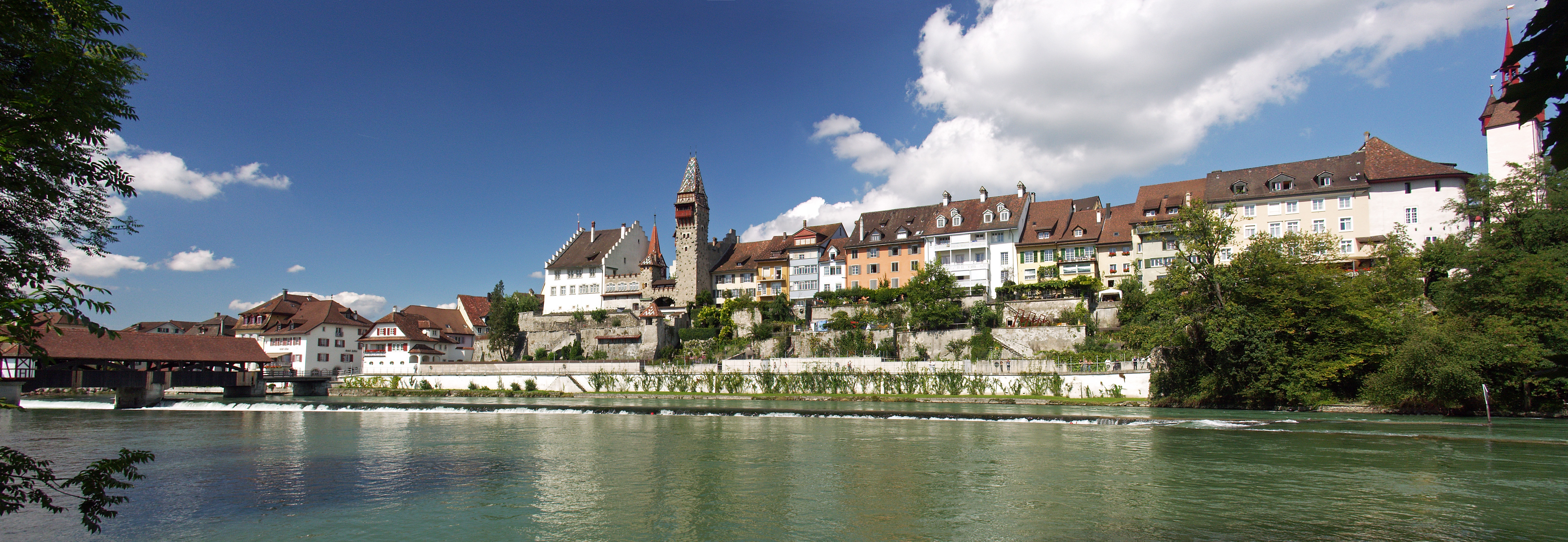 Bremgarten (AG), Switzerland on the Reuss River